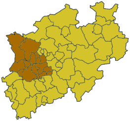 Map of north rhine westphalia highlighting DÃ¼sseldorf region